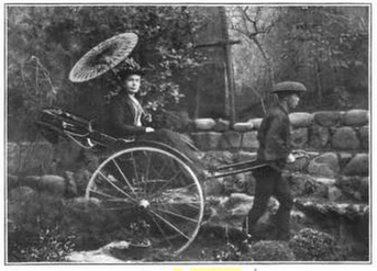 Belle L. Pettigrew, December, 1903, Tokyo, Japan